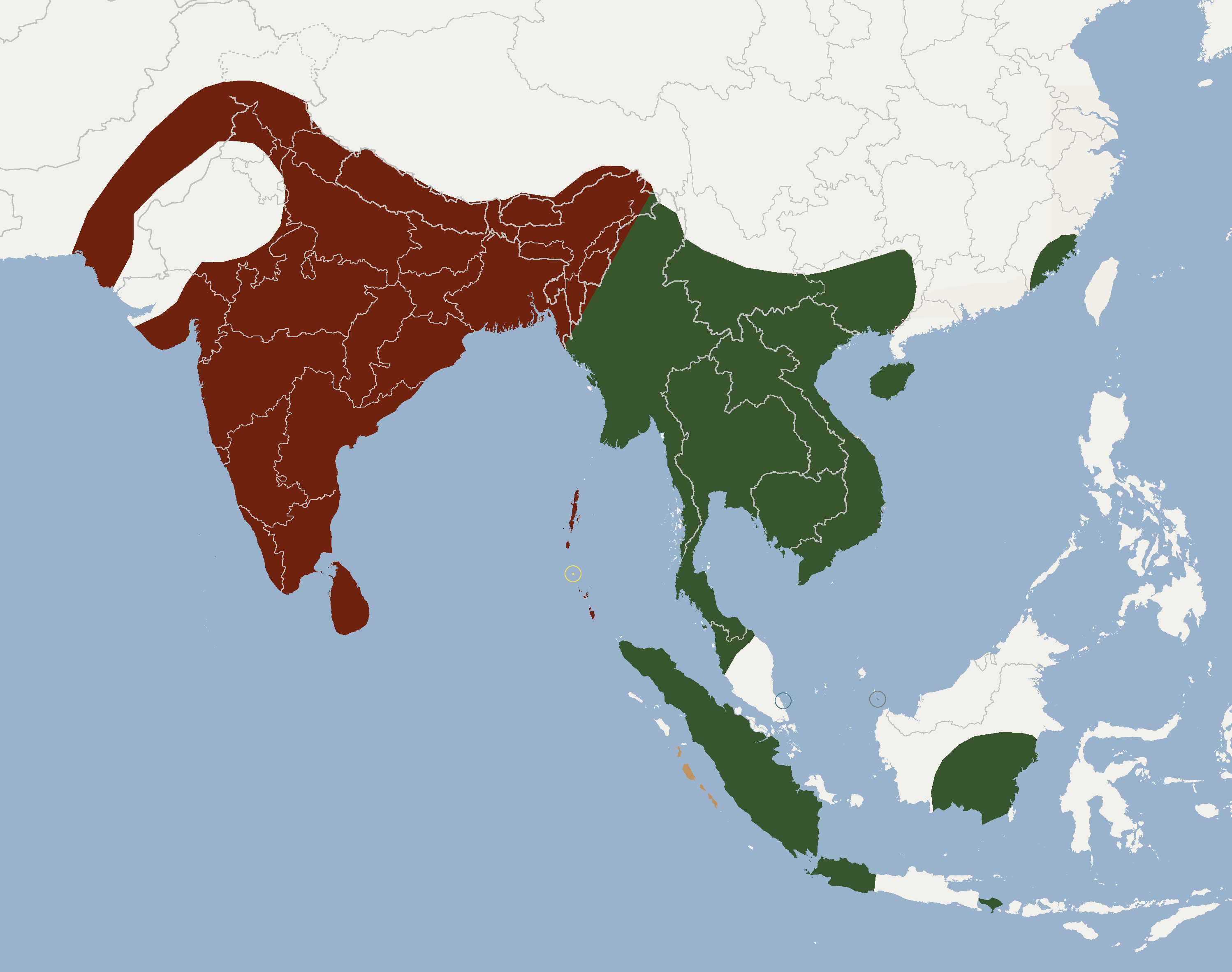 According to Francis, 2008, Smith & Xie, 2008, IUCNRedlist